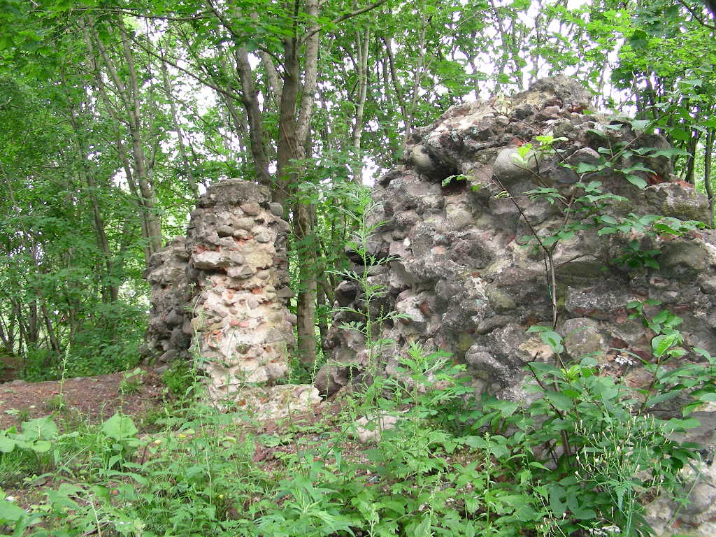 Беларуская (тарашкевіца): Рэшткі замка. в. Геранёны This is a photo of Belarusian heritage monument. Reference number: 412Г000292 ( WLM)